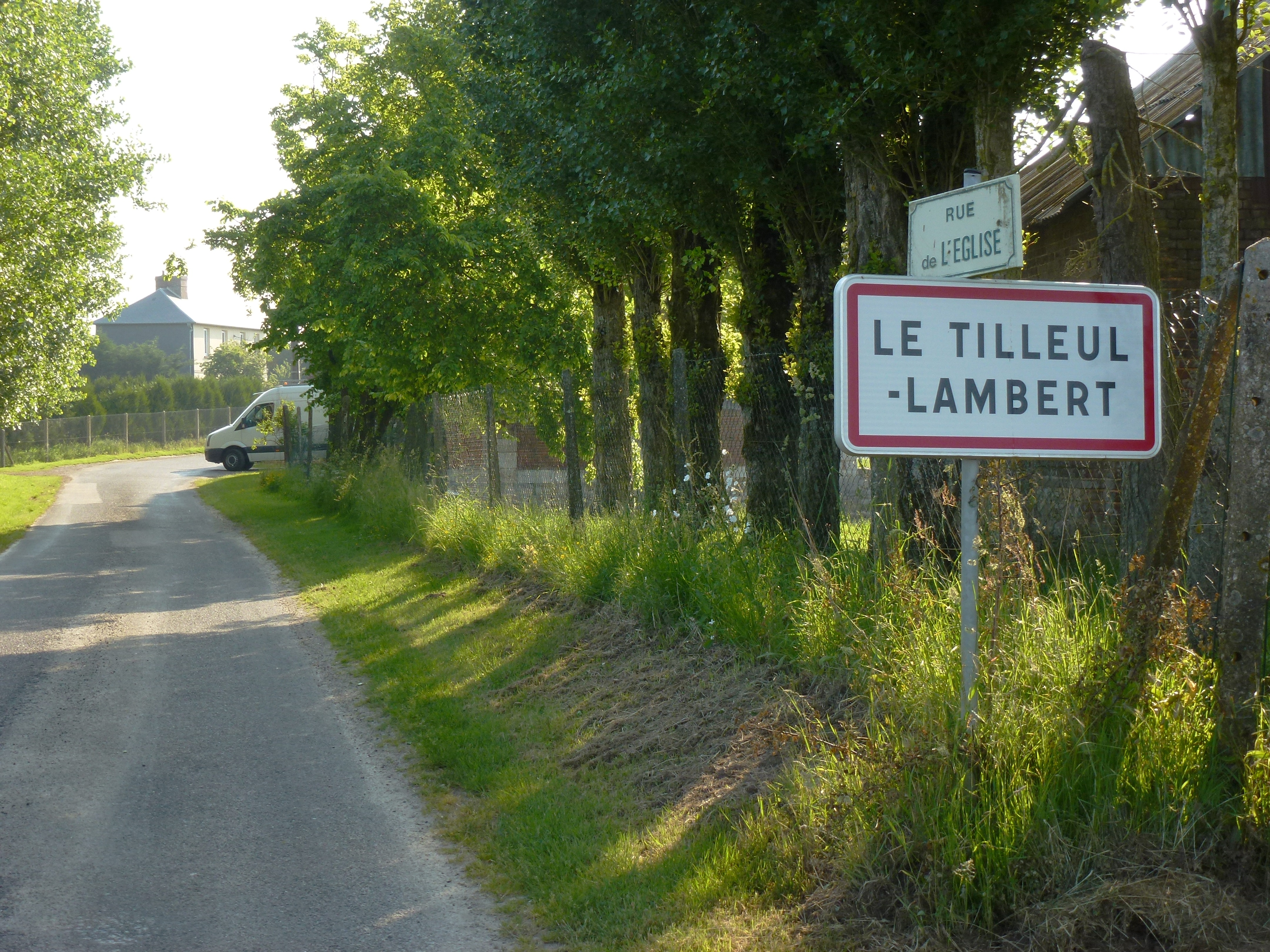 Le Tilleul-Lambert (Eure, Fr) city limit sign